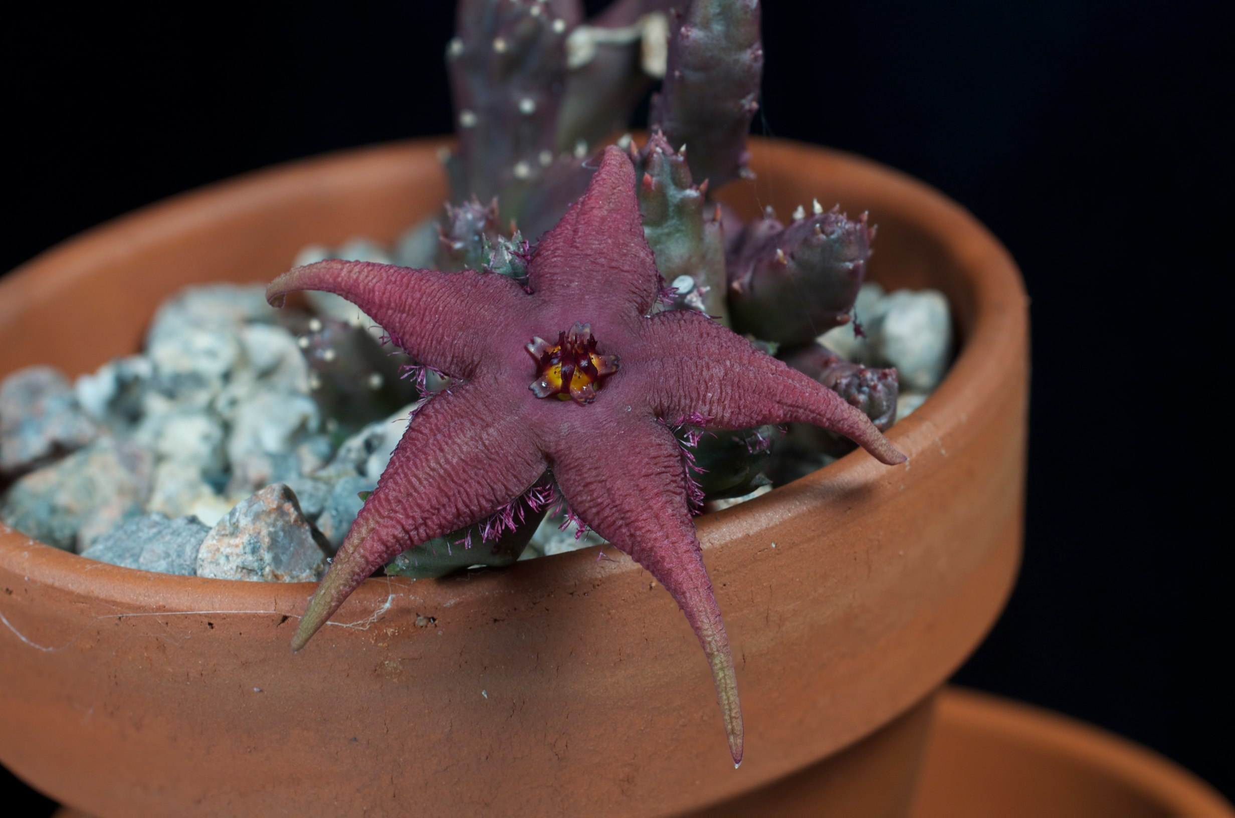 From Namibia